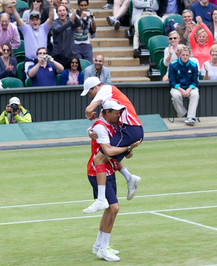 Bob and Mike Bryan celebrate the 2012 Olympic Gold medal.